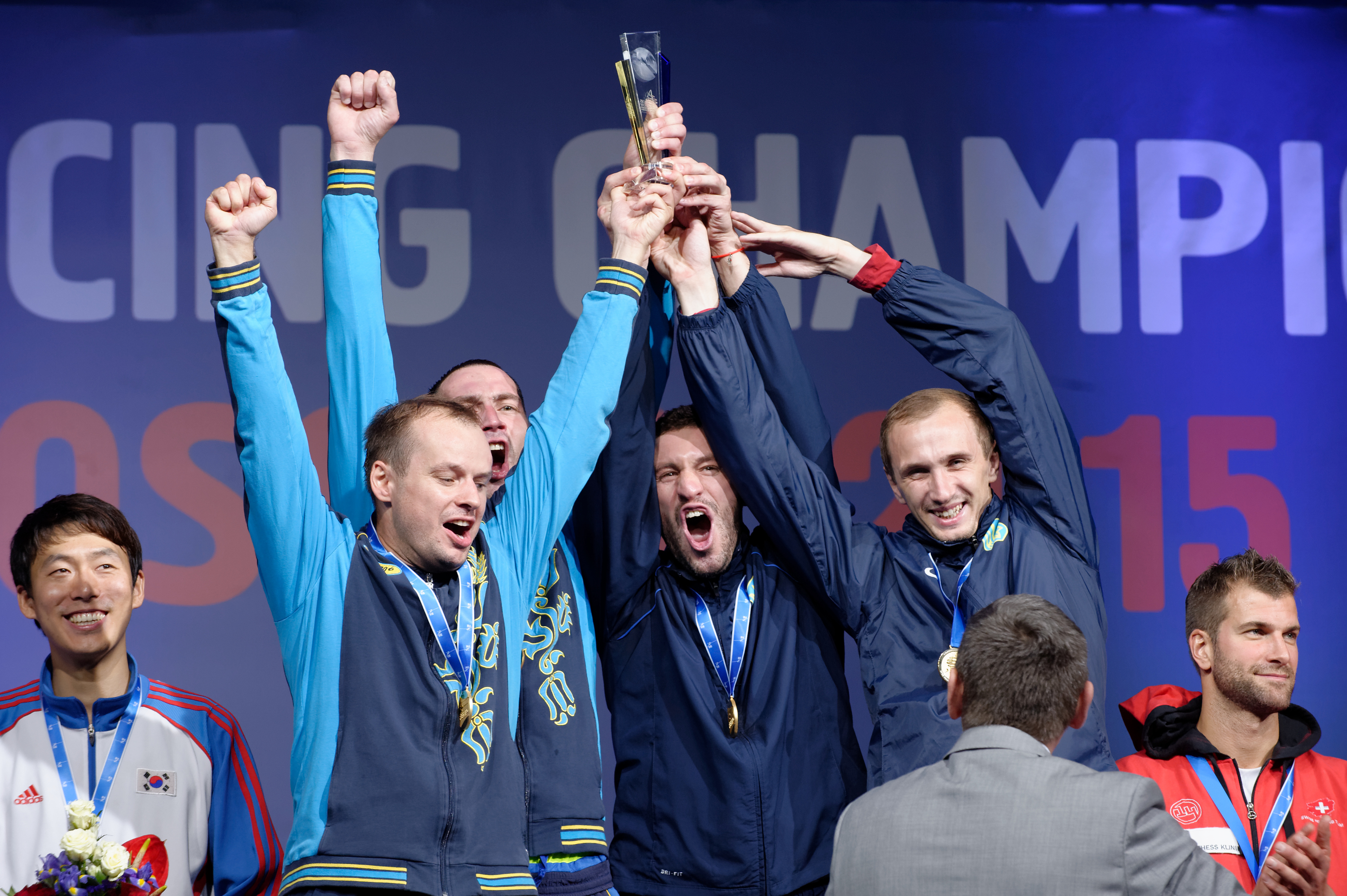 Ukraine at the medal ceremony of the men's team épée event of the 2015 World Fencing Championships on 18 July 2014 at the Olympic Stadium in Moscow.